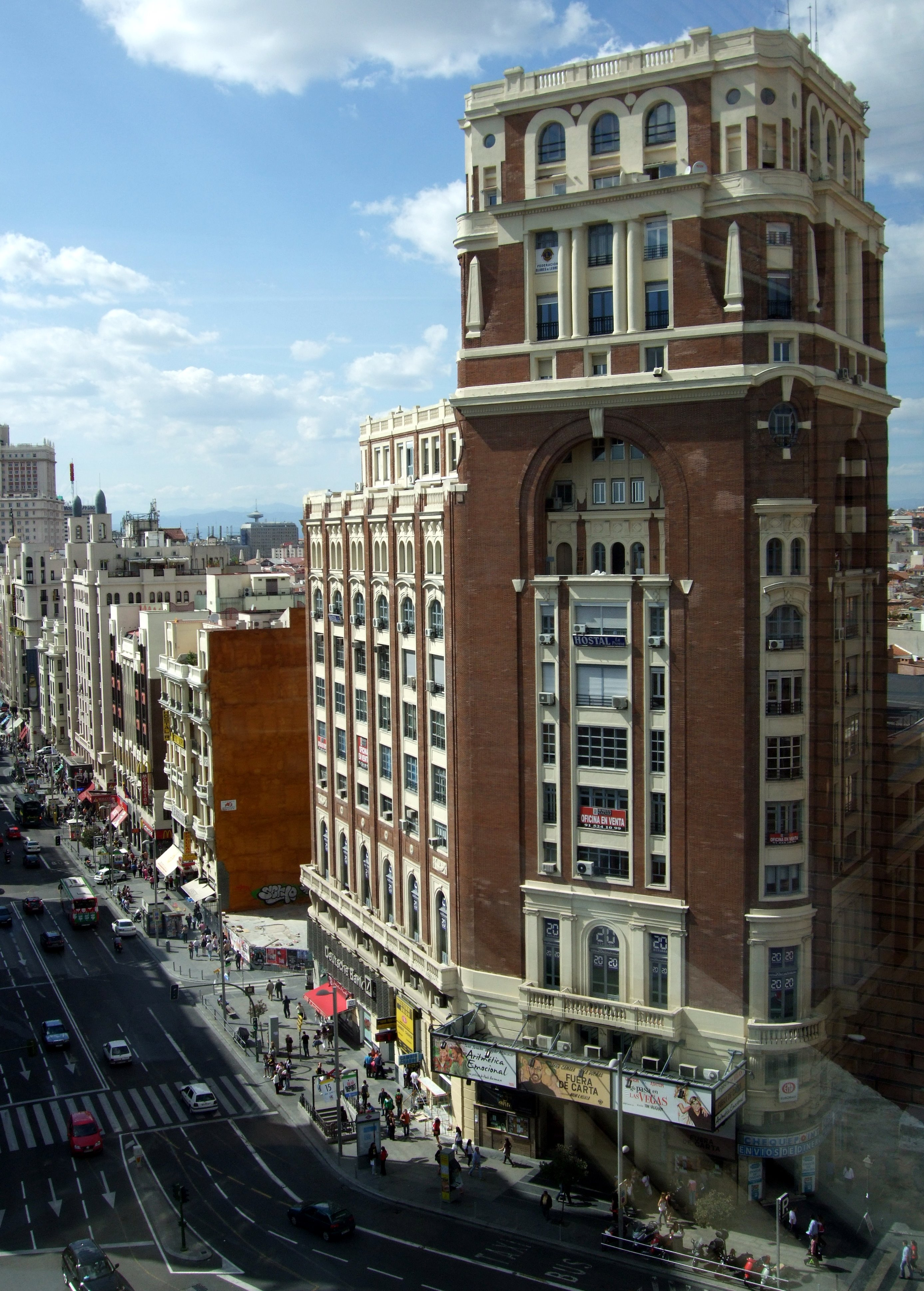 View of the Palacio de la Prensa (literally "Press Palace") in Madrid (Spain) from a building at the Plaza del Callao (square).